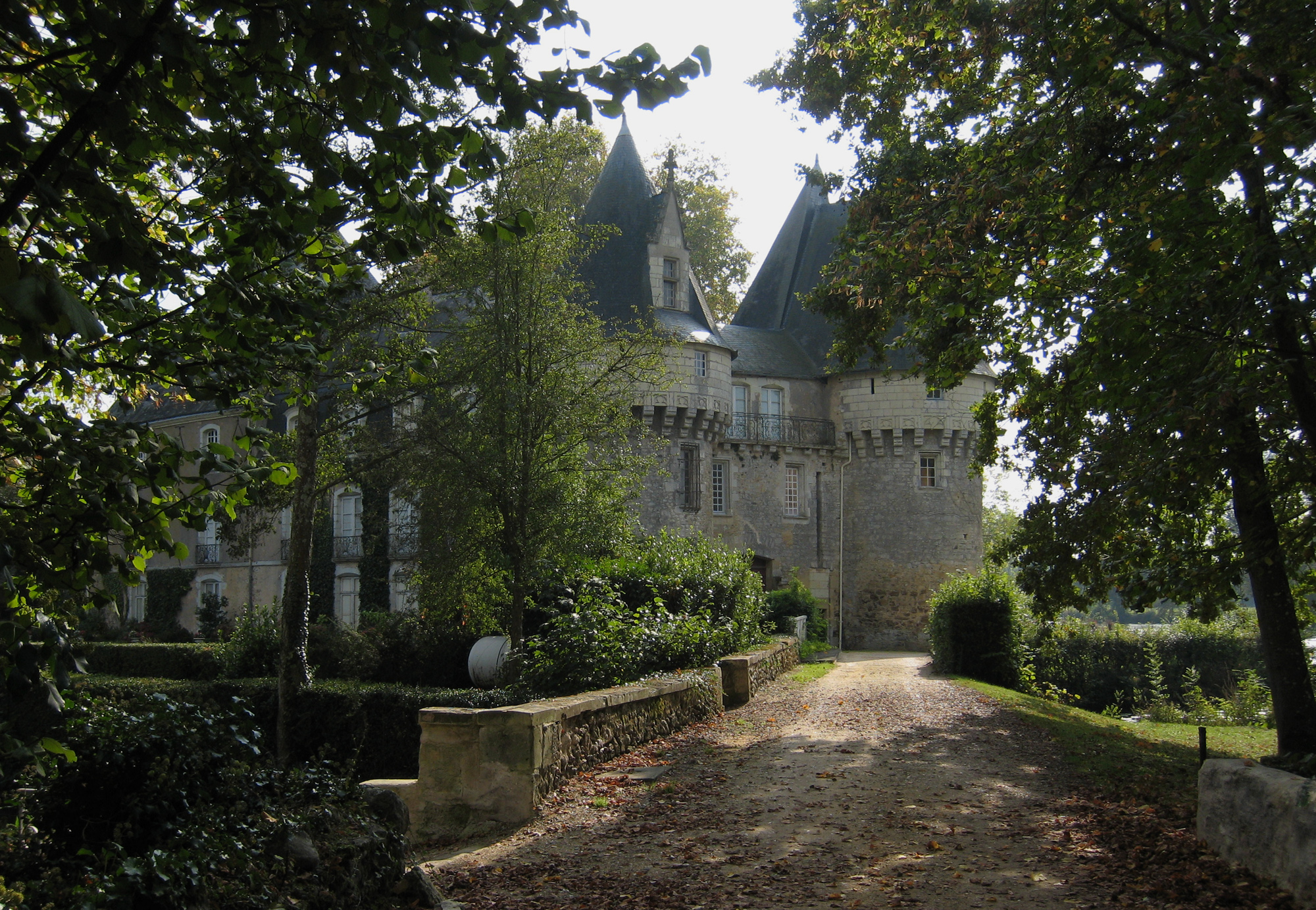 Castle of Bazouges, located in the village of Bazouges-sur-le-Loir in the county of Sarthe/France.